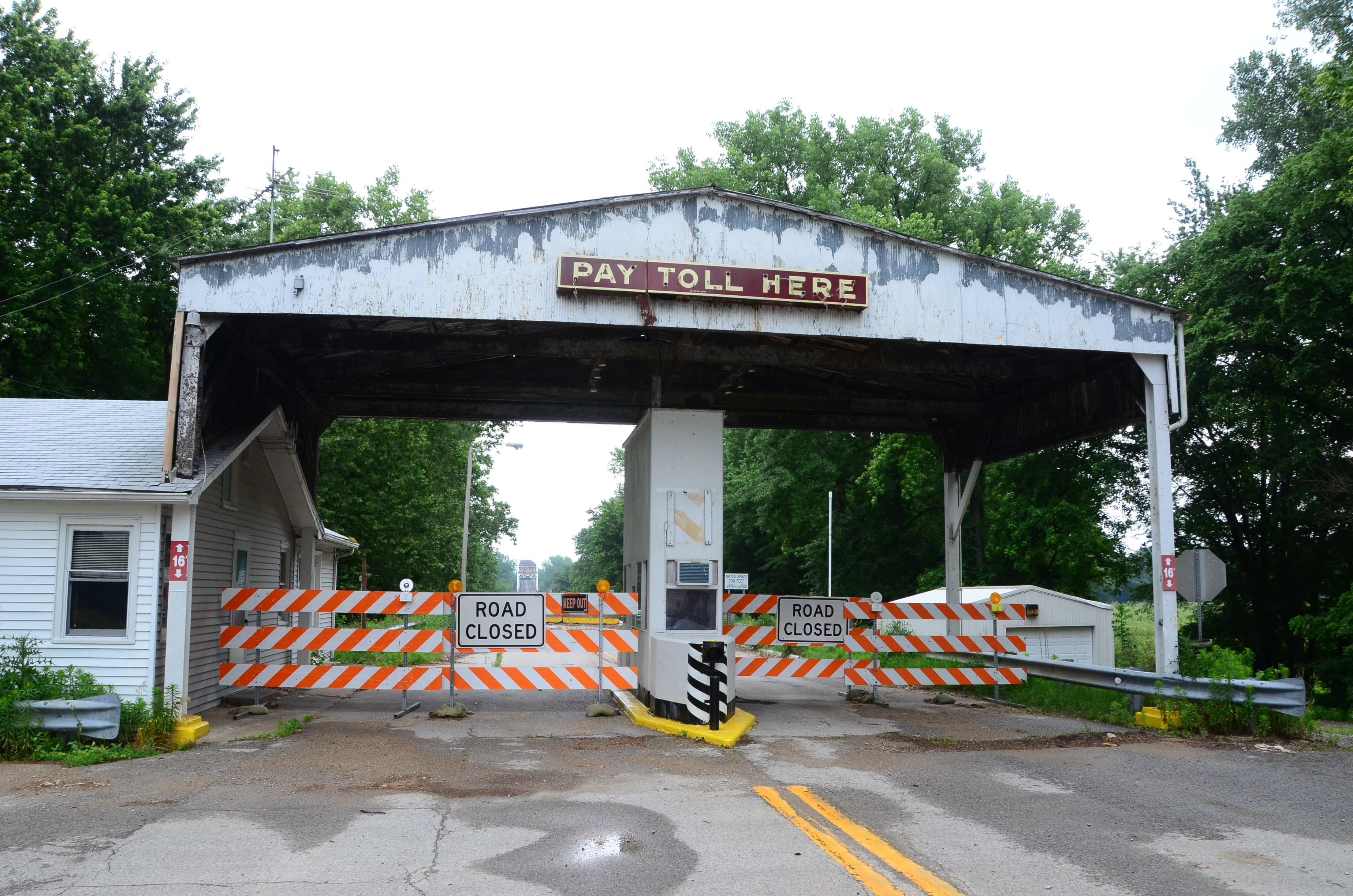 Permanently closed Wabash River toll bridge connecting White County IL to New Harmony IN, viewed from Illinois side, June 2013.